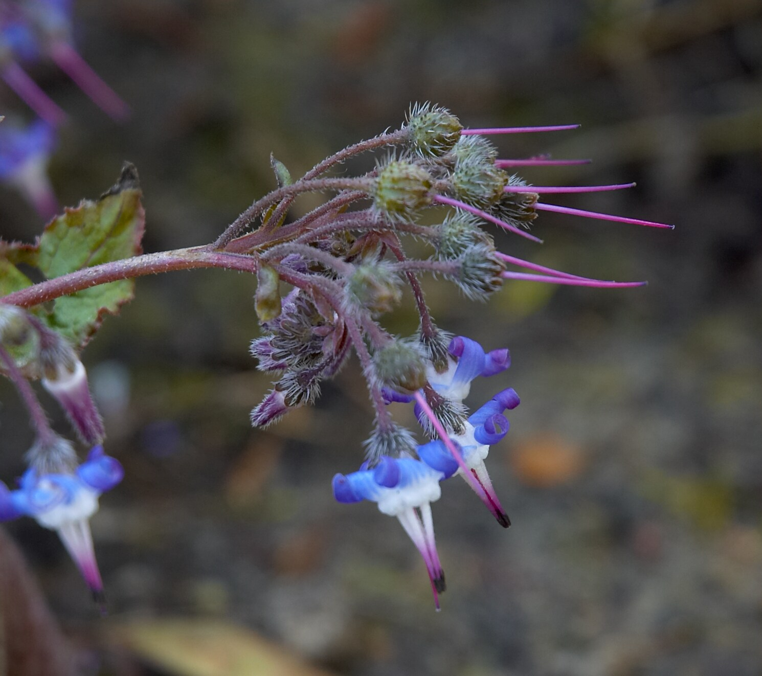 Abraham-Isaac-Jacob